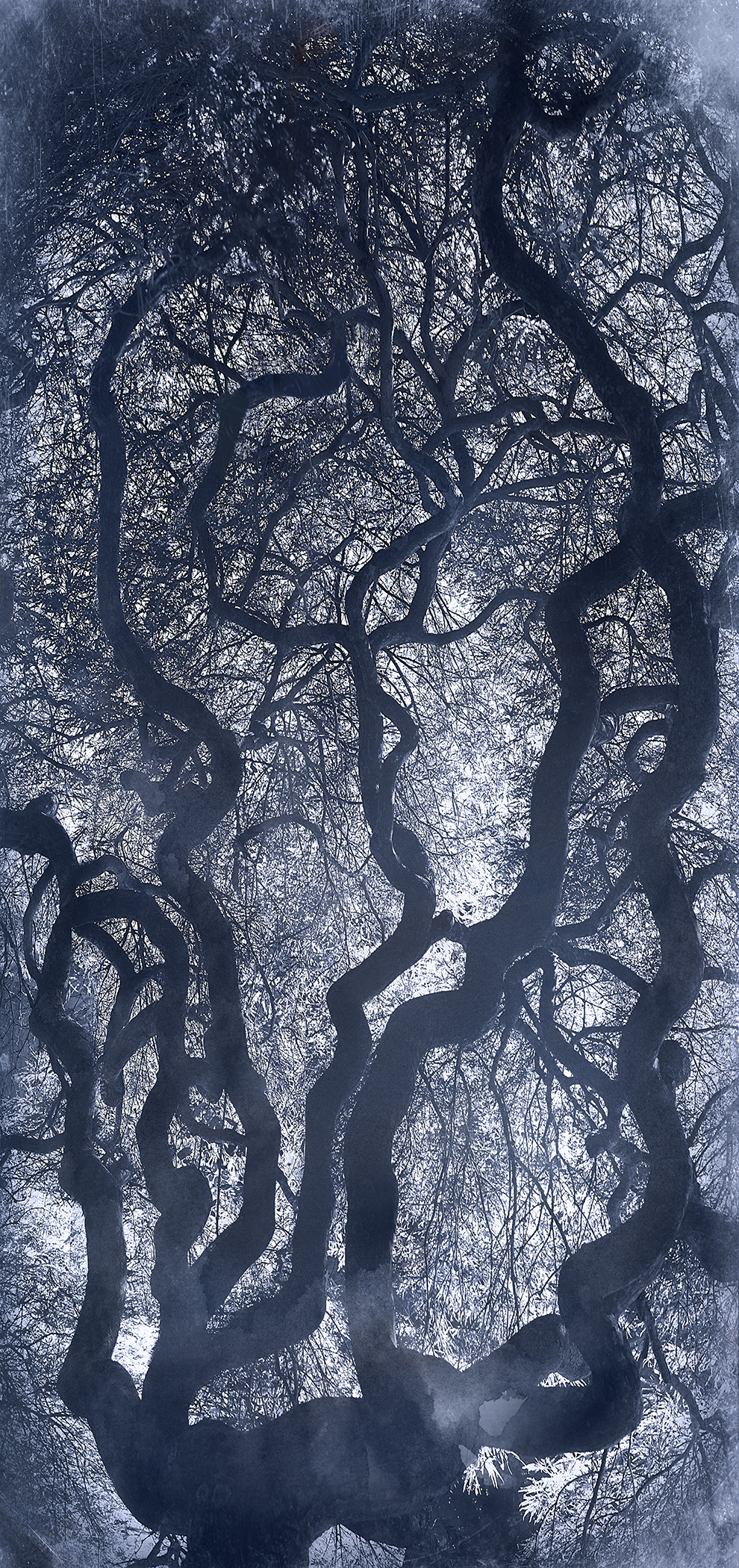 "Indigo XII", Cyanotype, 83 X 38 inches Other information Available online at the following two websites